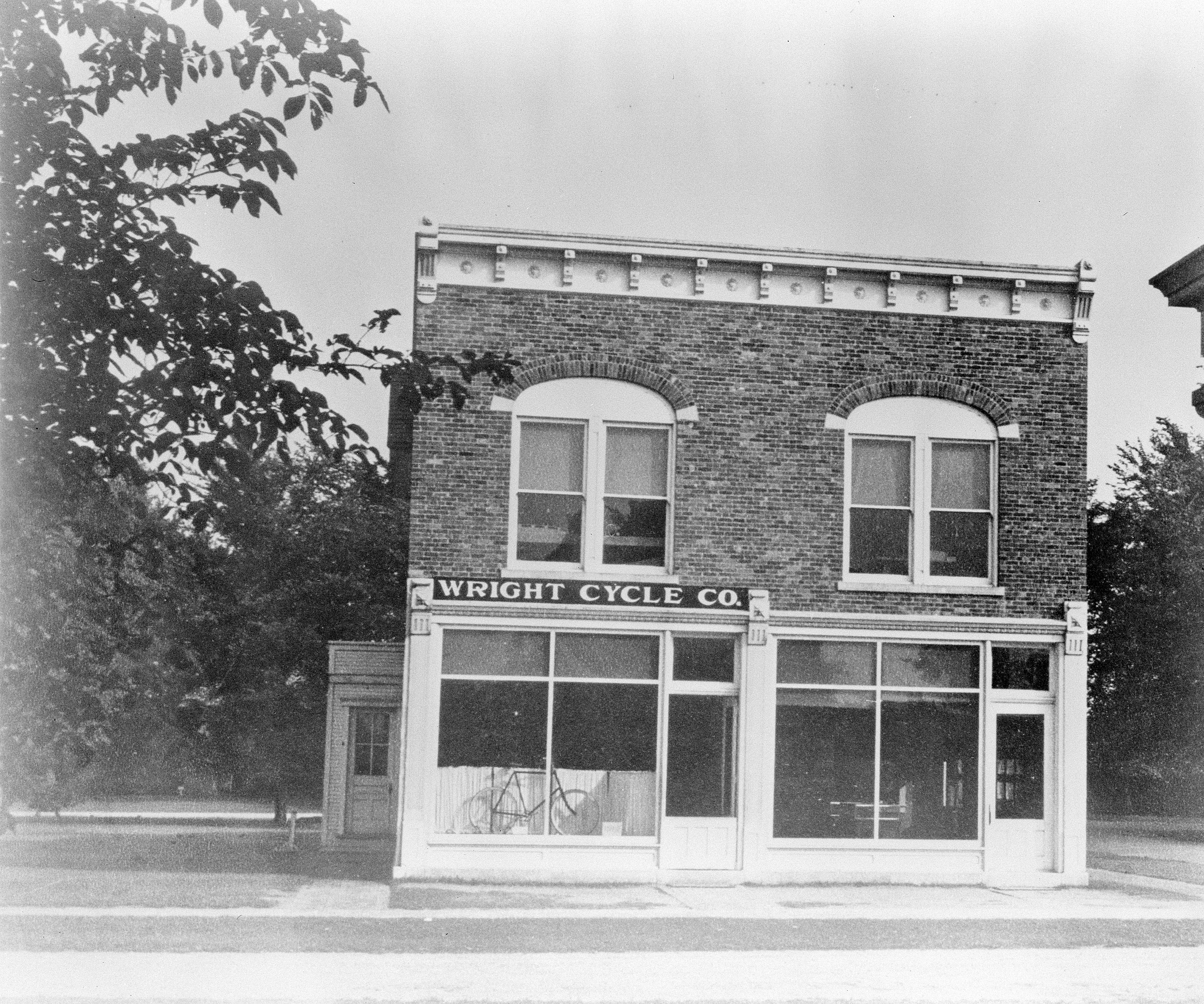 After a brief stint in the printing business, Orville and Wilbur Wright decided to open a bicycle shop together. After initially only selling and repairing bicycles in Dayton, Ohio, the Wright brothers began to make modifications on bicycles and to build their own models. They also took custom orders from their patrons. Still used today, their revolutionary oil-retaining wheel hub and coaster brakes made early bicycling easier andmore comfortable. This photograph shows the Wright Cycle shop as it looked in 1937 after being moved to the Henry Ford Museum at Greenfield Village in Dearborn, Michigan. Behind the original shop, located at 1126 W. Third Street in Dayton, the Wrights assembled a frame addition where they built their first airplane.